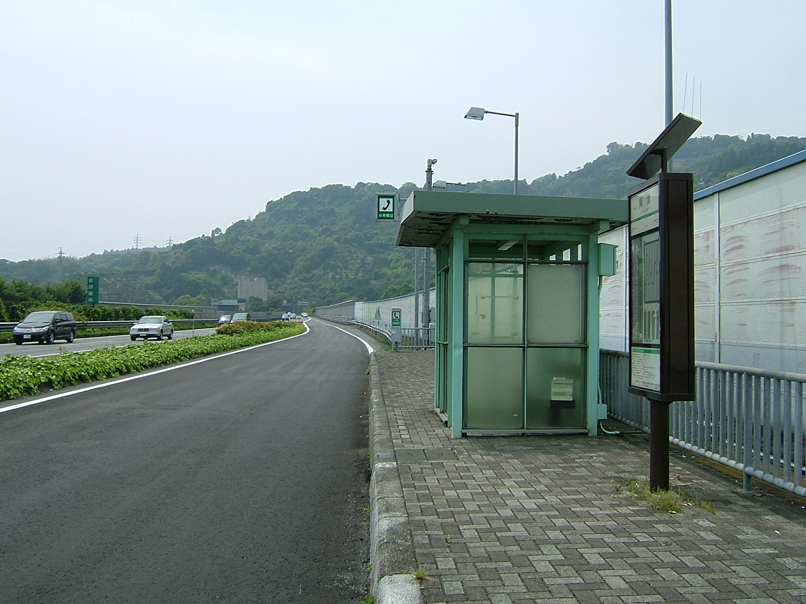 Okitsu Bus Stop on the Tomei Expressway eastbound line